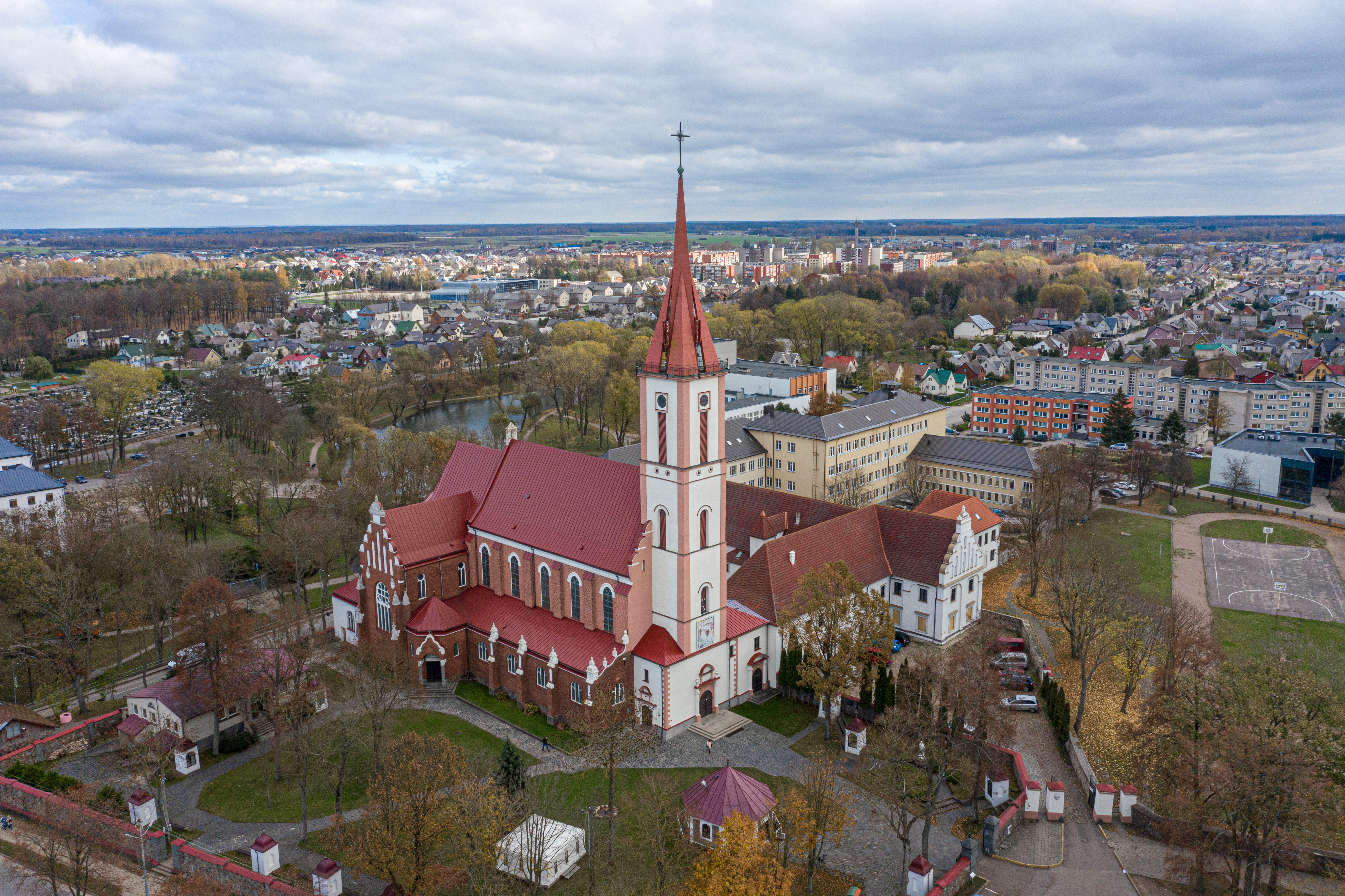 Kretinga Bernardine Monastery and the Lord’s Revelation to Virgin Mary Church building complex